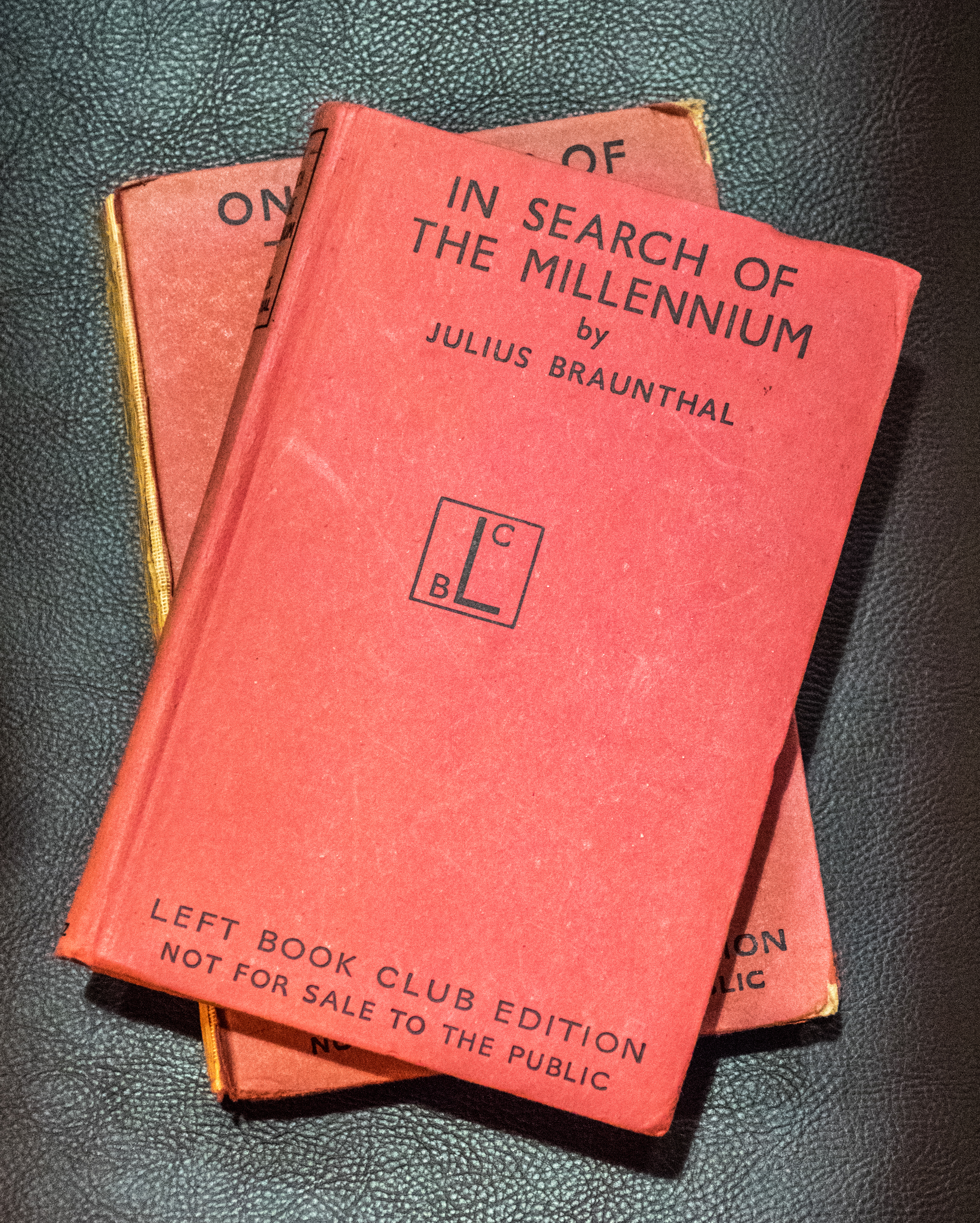 Two books in editions from the Left Book Club, published by Victor Gollancz: In Search of the Millennium, by Julius Braunthal (1945), and On the Top of the World by L. Brontman, introduction by Otto Schmidt (1938)